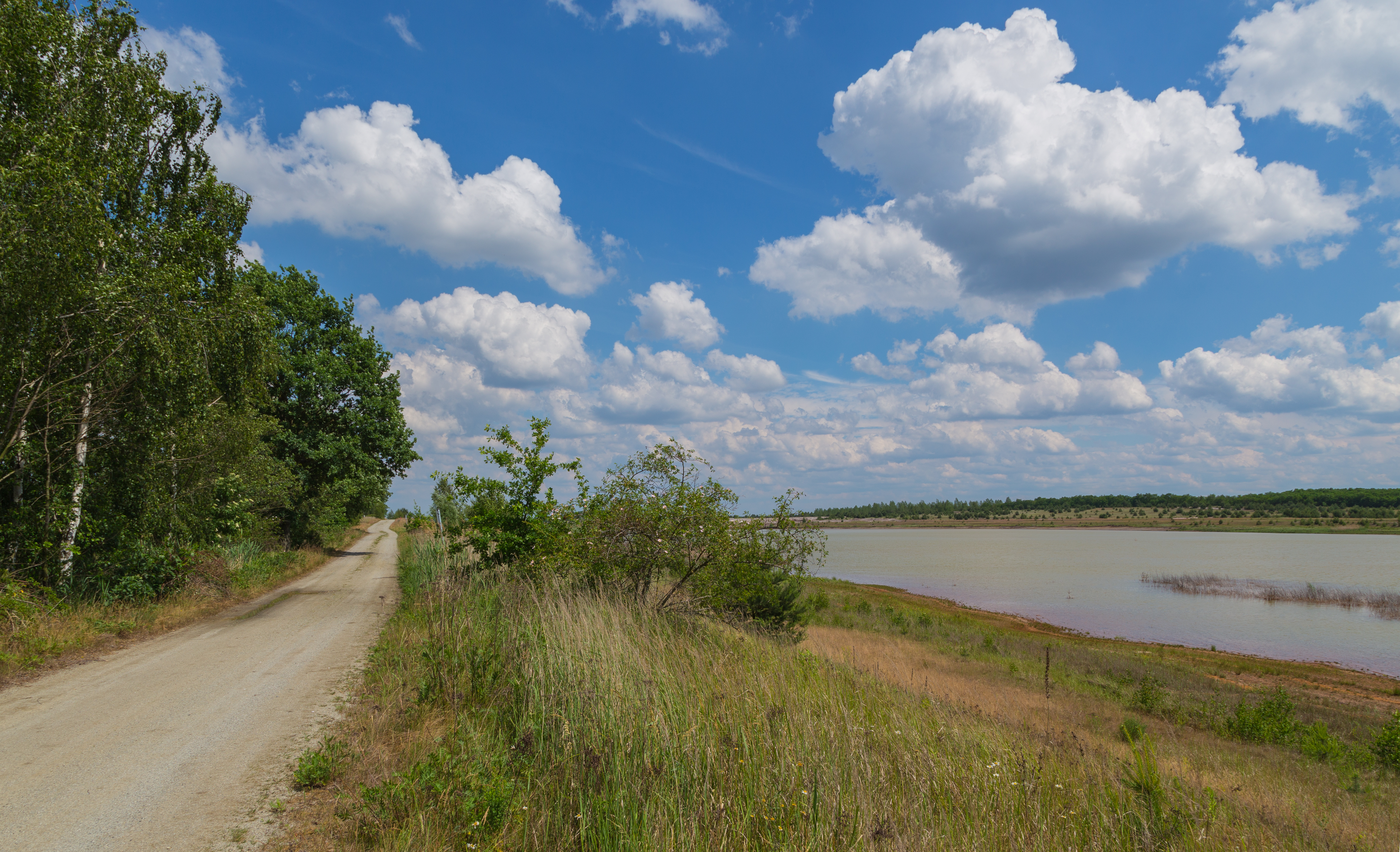 Lake Schlabendorf (Schlabendorfer See) near Görlsdorf, district of Luckau, Landkreis Dahme-Spreewald, Brandenburg, Germany. This part of the lake belongs to Sielmanns Naturlandschaft Wanninchen and also to the Landscape Protection Area Lausitzer Grenzwall zwischen Gehren, Crinitz und Buschwiesen, the SPA Luckauer Becken and to the Niederlausitzer Landrücken Nature Park (Naturpark Niederlausitzer Landrücken).